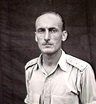 Morotai. Colonel J. G. N. Wilton DSO, General Staff Officer, Advanced Land Headquarters